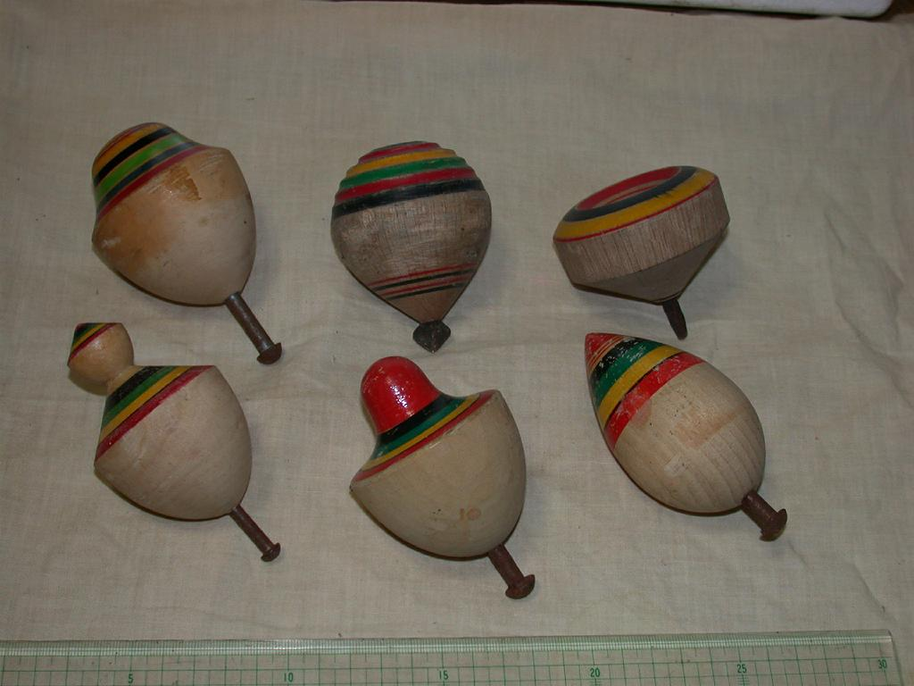 Japanese Spinning Tops:nagegoma(kyusyu no koma) from my collection Author;Keisotyo